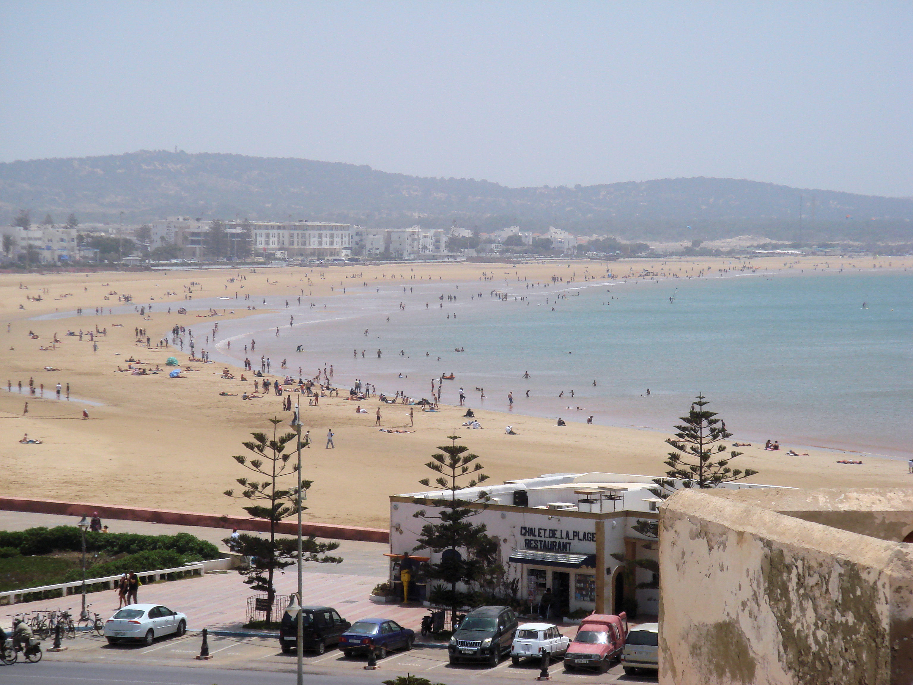 Essaouira_beach